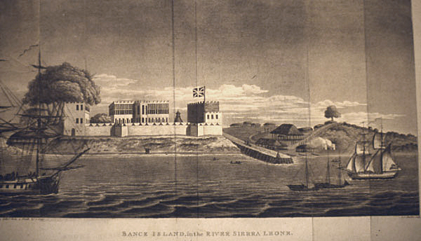 Image of Bunce Island, Sierra Leone from 1805